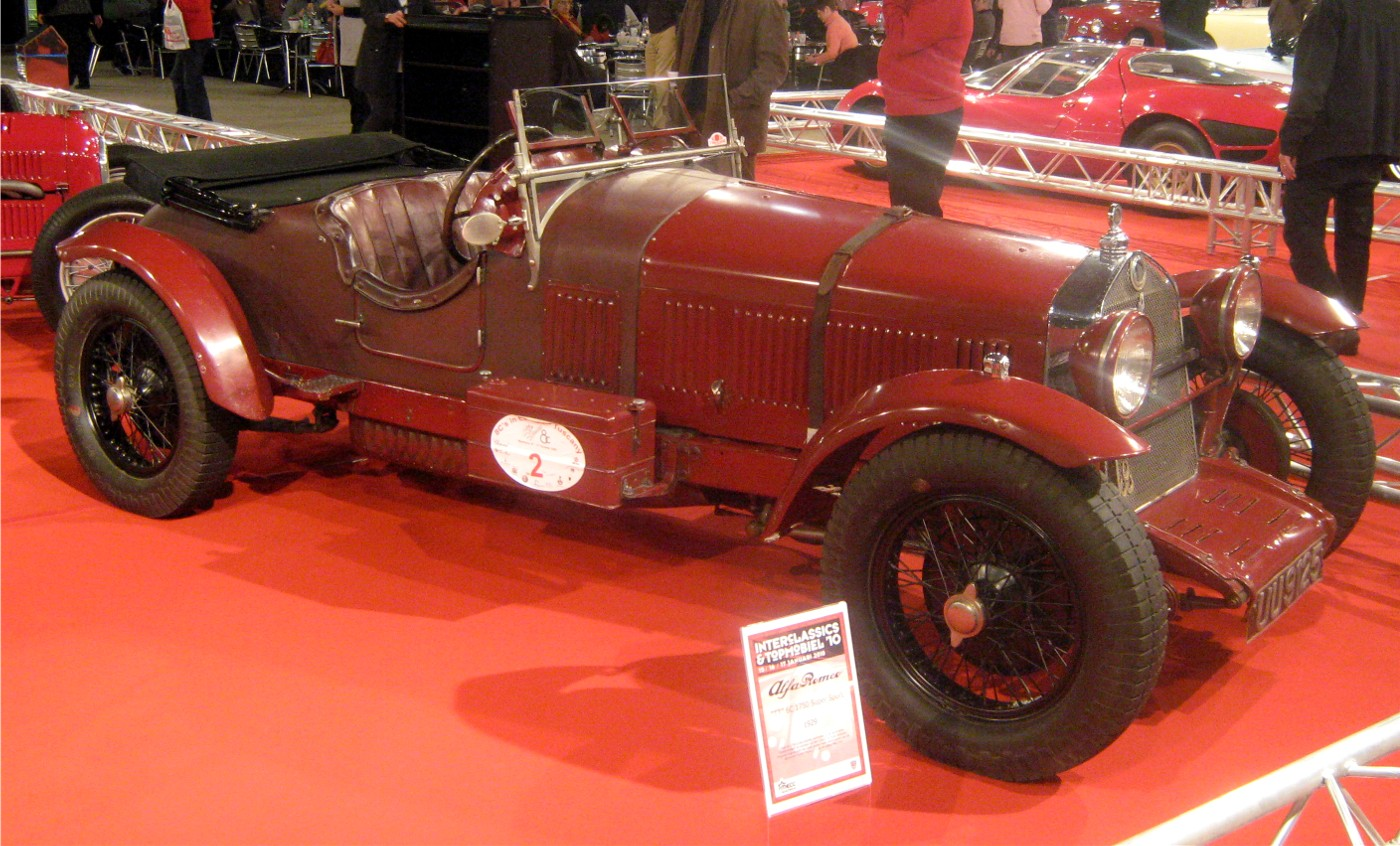 InterClassics & TopMobiel at the MECC in Maastricht